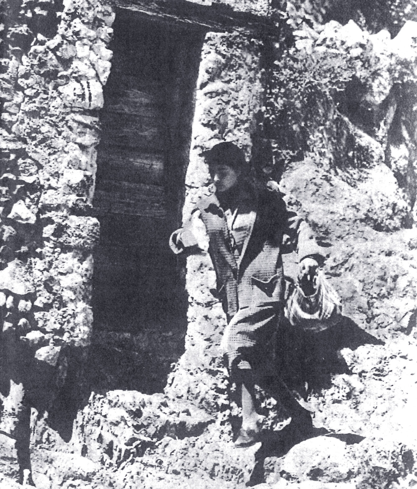 Irene Galter nella scena iniziale de "Il sole negli occhi" (Pietrangeli, 1953)